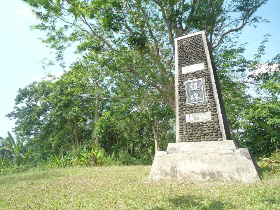 Filipino-Japanese Frienship Landmark, Sitio Bongcao, Curry, Pili, Camarines Sur